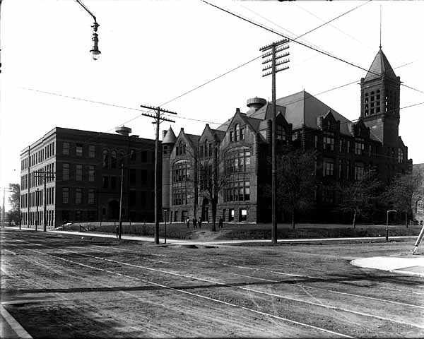 South High School, Cedar and Twenty-fourth, Minneapolis. Shows addition from 1911.